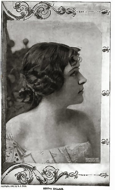 Actress Bertha Galland ca. 1897